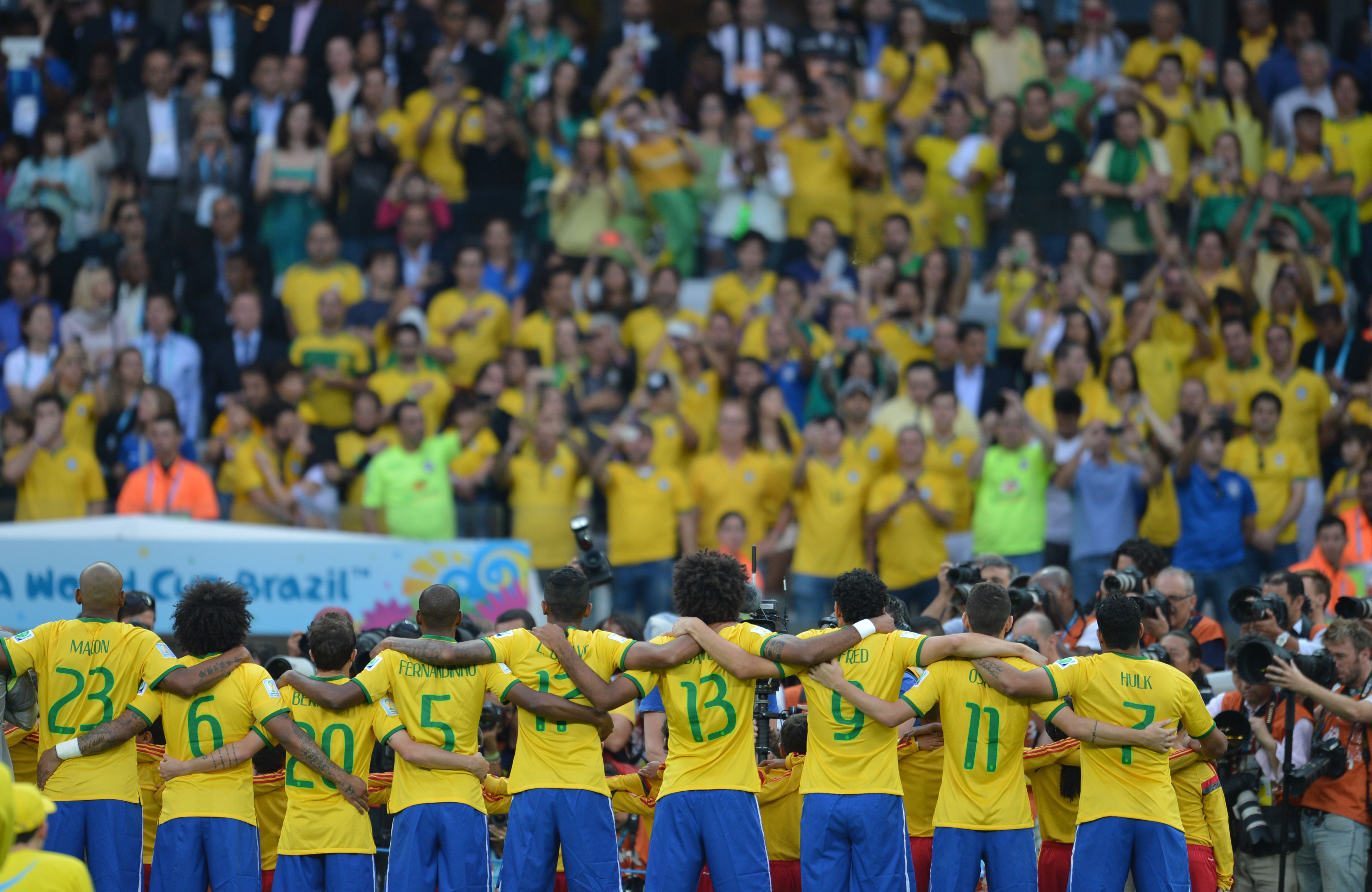 Brazil vs Germany, in Belo Horizonte